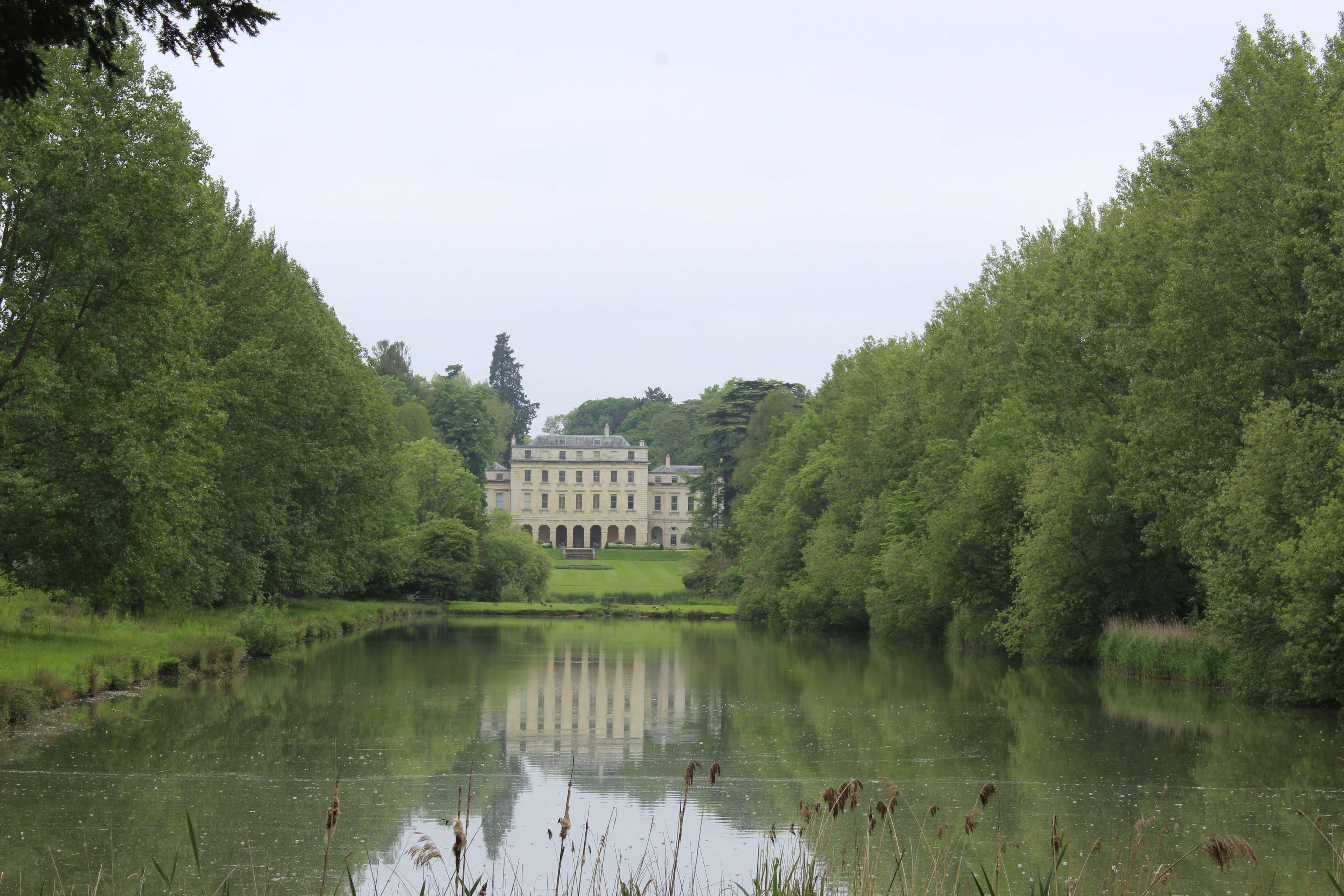 Shotover House, landscapes and wildlife